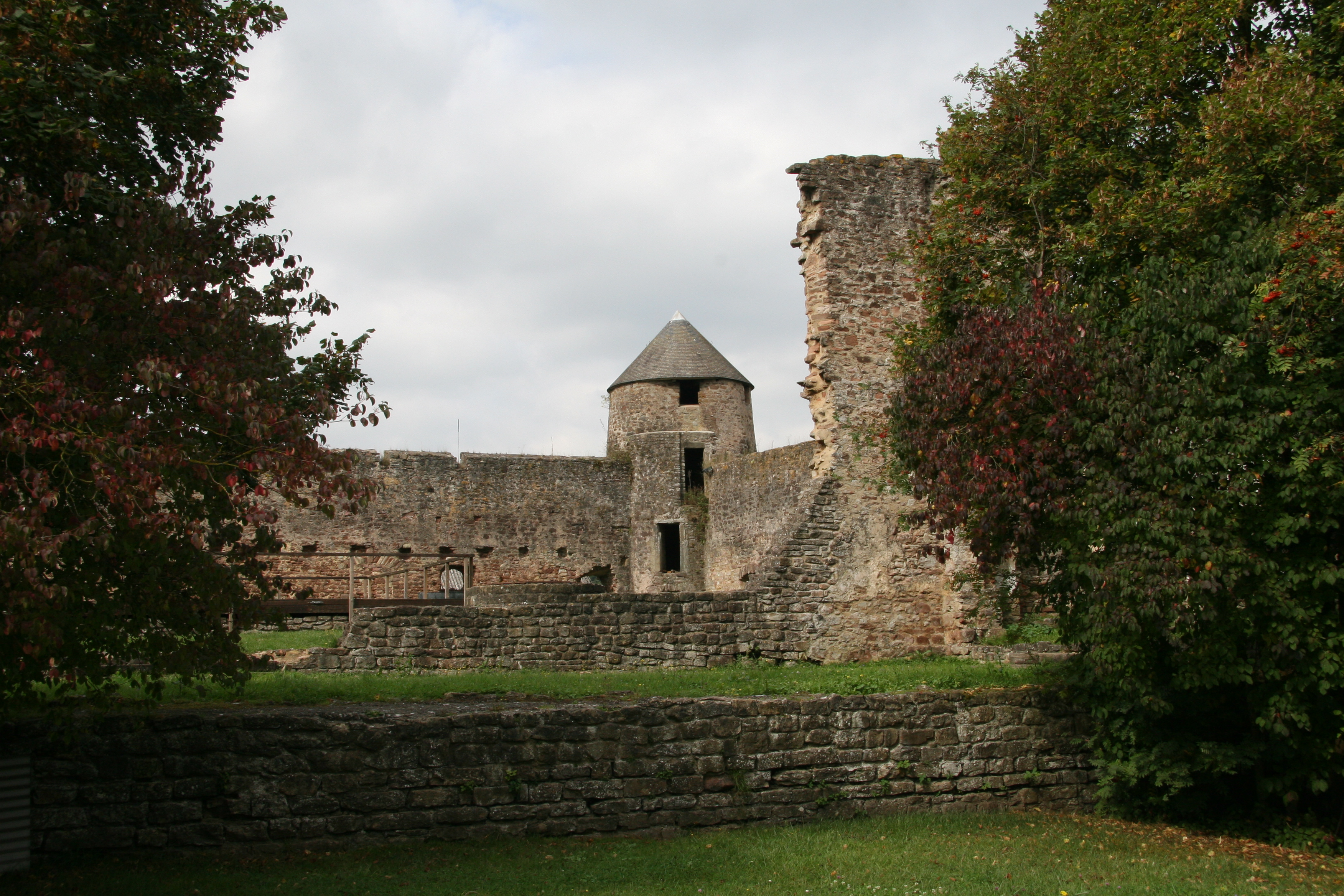 Moat Pettingen, municipality of Mersch, Luxembourg.